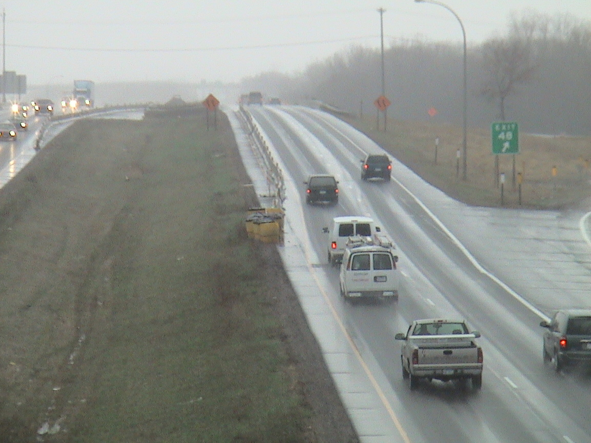 Taken April 3, 2007 by Joseph Mikkelson. Looking at the eastern end of the project from the Bruce Vento Regional Trail, this picture views Interstate 694 WB at U.S. Highway 61.